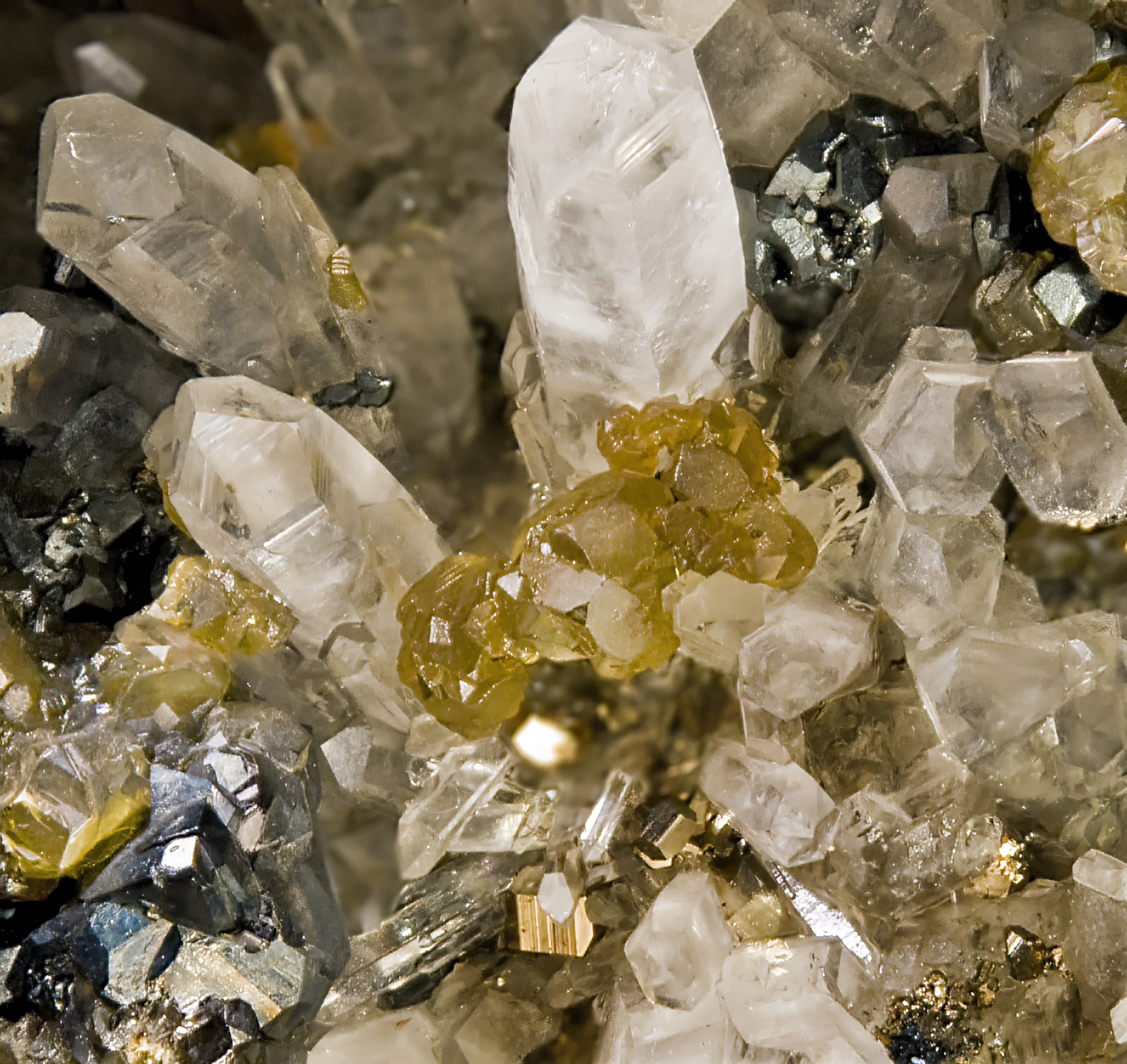 Sphalerite (Var.cleophane) Quartz Tetrahedrite - Huaron Mines, Huaron Mining District, San Jose de Huayllay District, Cerro de Pasco, Daniel Alcides Carrión Province, Pasco Department, Peru (4x4cm)